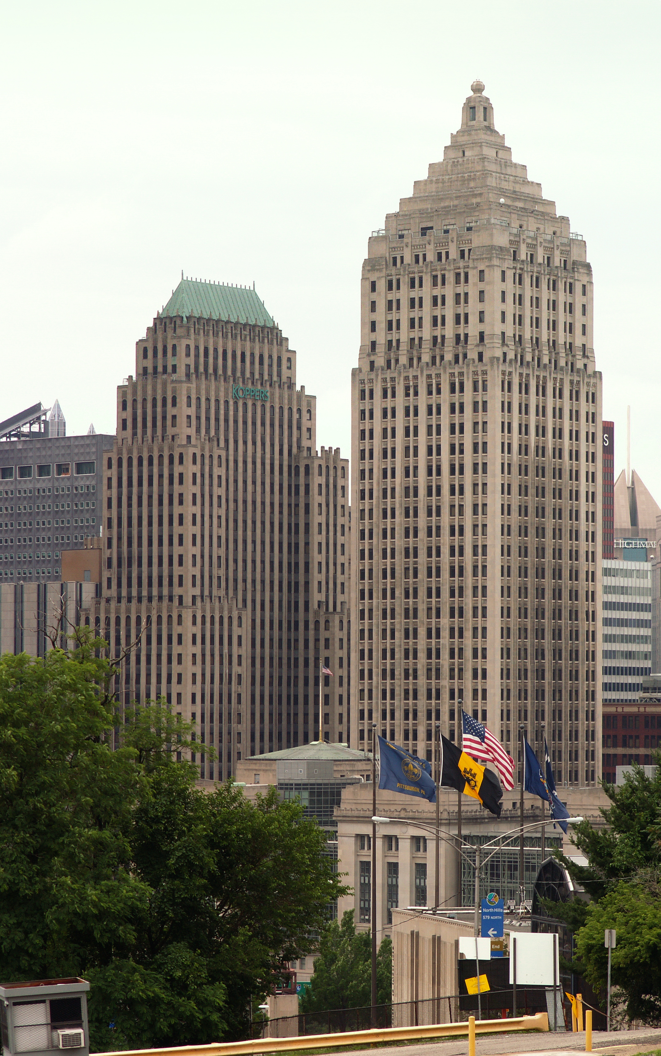 The Koppers and Gulf Towers, Pittsburgh, seen from Crawford Street